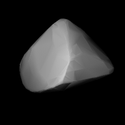 3D convex shape model of 1801 Titicaca, computed using light curve inversion techniques. J. Hanuš, J. Ďurech, M. Brož, B. D. Warner (June 2011). "A study of asteroid pole-latitude distribution based on an extended set of shape models derived by the lightcurve inversion method". Astronomy and Astrophysics 530: A134. ISSN 0004-6361. arXiv